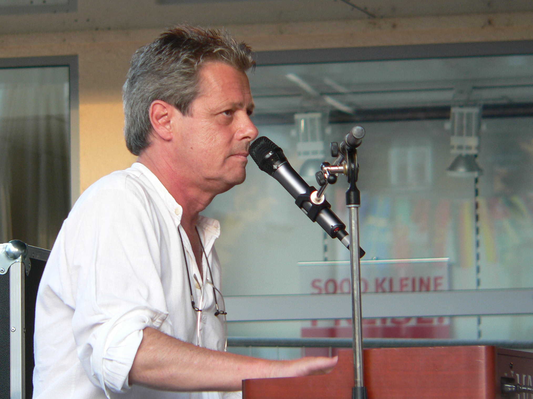 Eddie Hardin (now: Spencer Davis Group) at a concert on 8. July 2006 in Neckarsulm